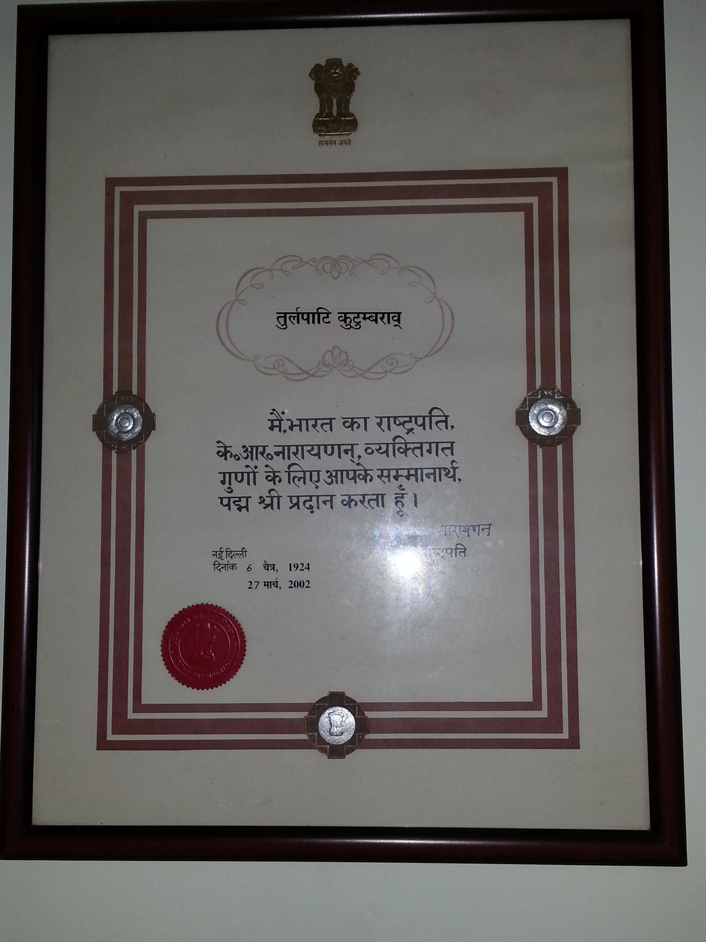 Padmasree award certificate of Kutumbarao